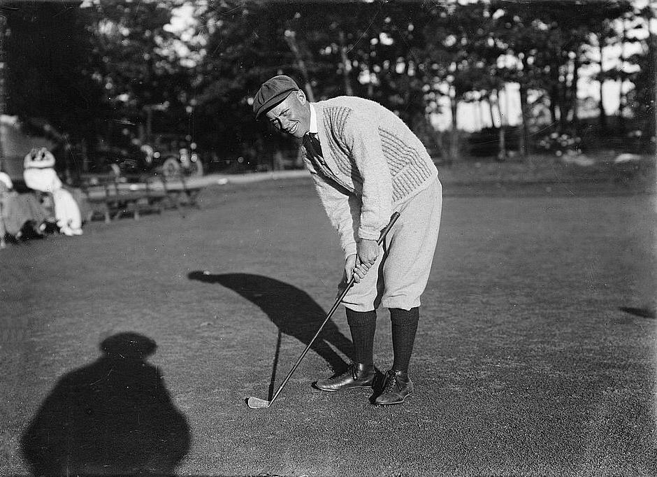 Bain News Service, publisher. Chick Evans on March 1, 1915 [between 1910 and 1915] 1 negative : glass ; 5 x 7 in. or smaller. Notes: Title from unverified data provided by the Bain News Service on the negatives or caption cards. Forms part of: George Grantham Bain Collection (Library of Congress). Format: Glass negatives. Repository: Library of Congress Prints and Photographs Division Washington, D.C. 20540 USA General information about the Bain Collection is available at Persistent URL: Call Number: LC-B2- 2293-13